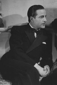 Armando de Vicente-actor